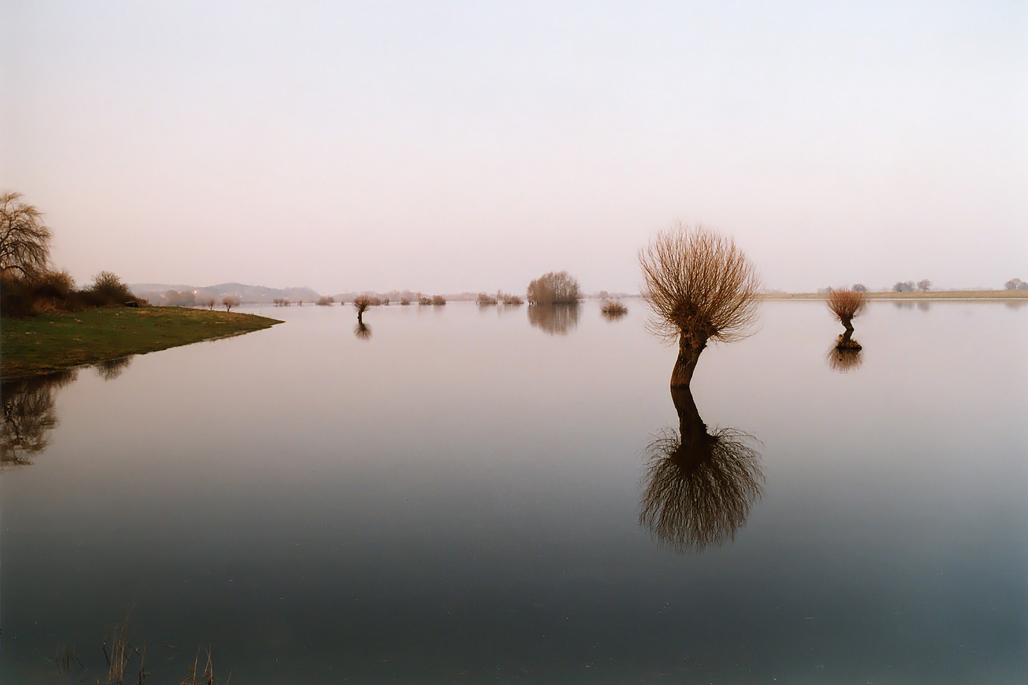 The river Jeetzel, a tributary of the Elbe, at high tide (river section between Seerau/H. and Hitzacker).